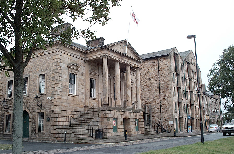 Maritime Museum